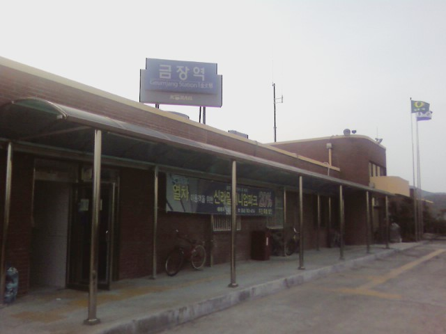 Geumjang Station